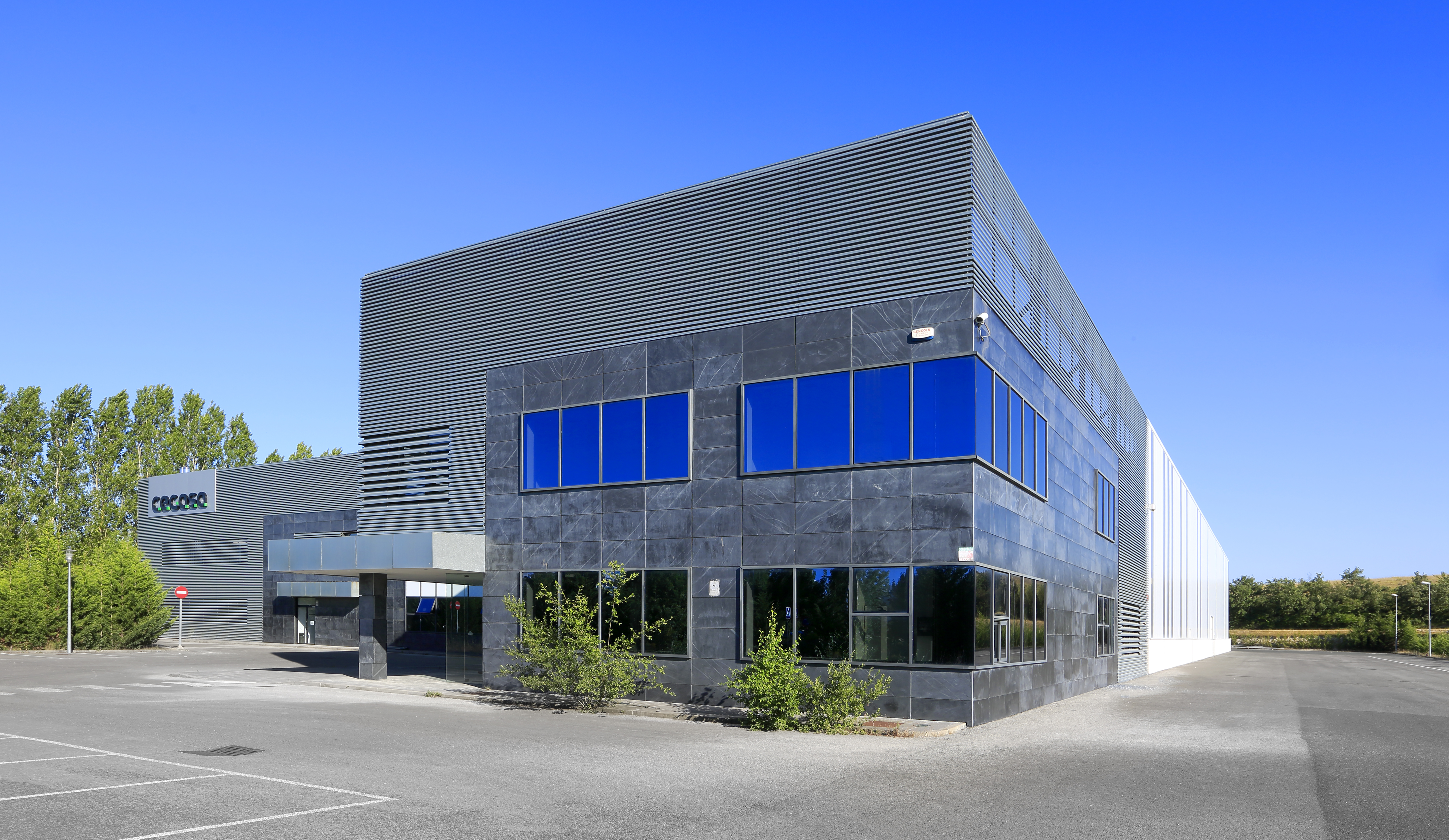 Instalaciones de Cegasa en el Parque Tecnológico de Álava